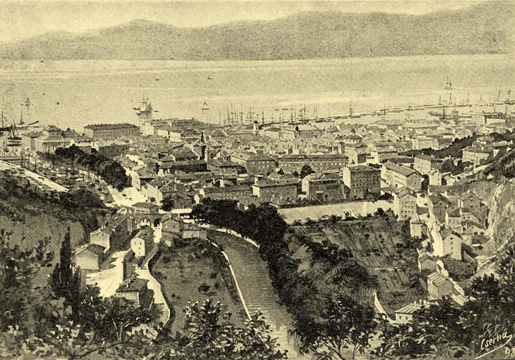 View of Rijeka by Károly Cserna.